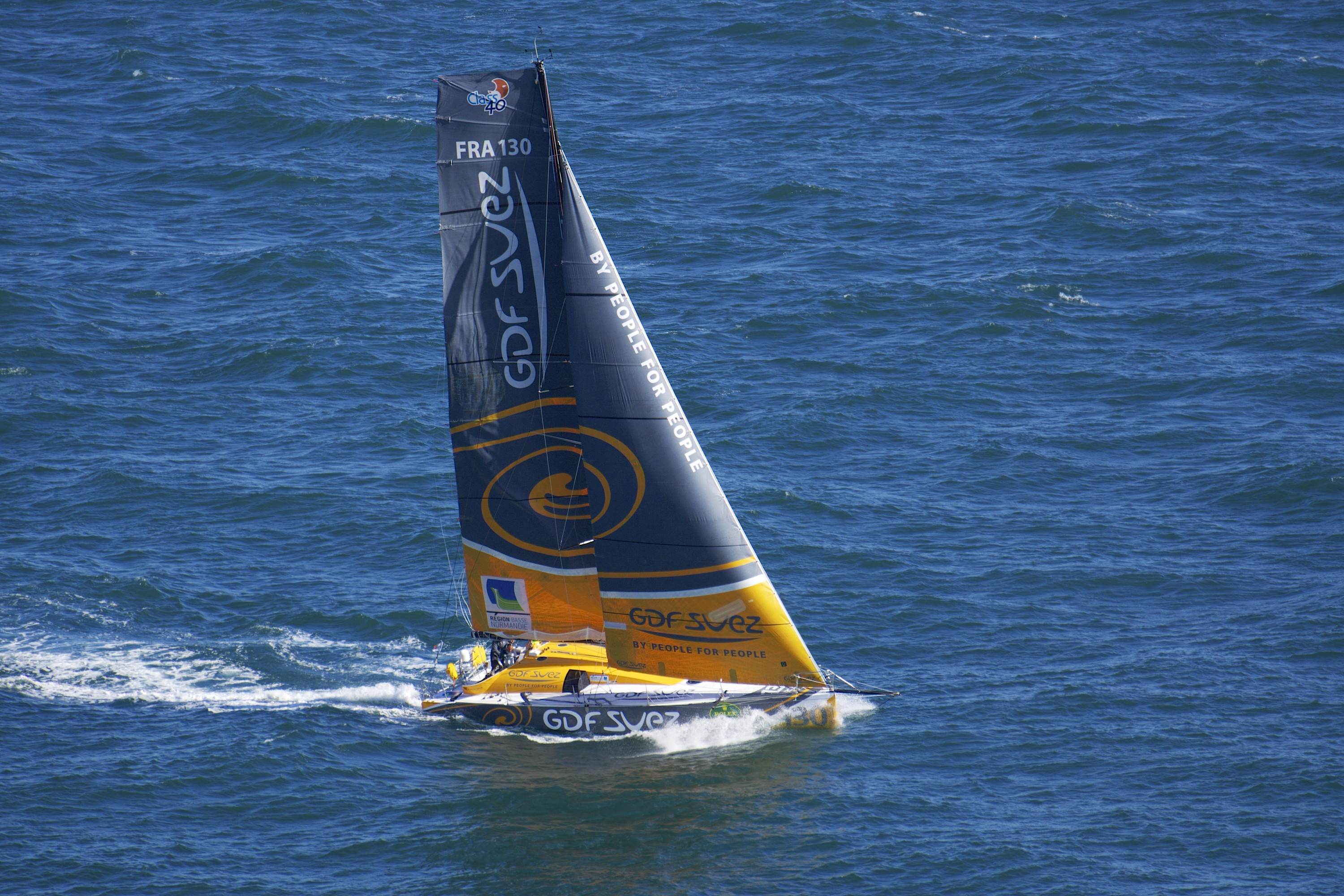 Seen from Durlston Head, Swanage. GDF Suez Owner Sebastien Rogues Type Class 40 A few hours after departing Cowes on the Isle of Wight